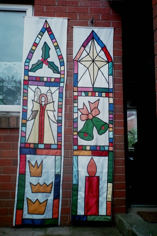 Photo of two Stained Glass Window Patchwork Banners.